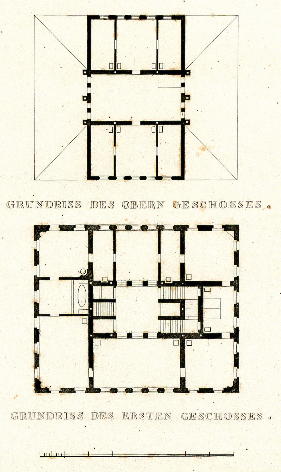 Excerpt: Floor plan of Landhaus Behrend (Schinkel, 1822)